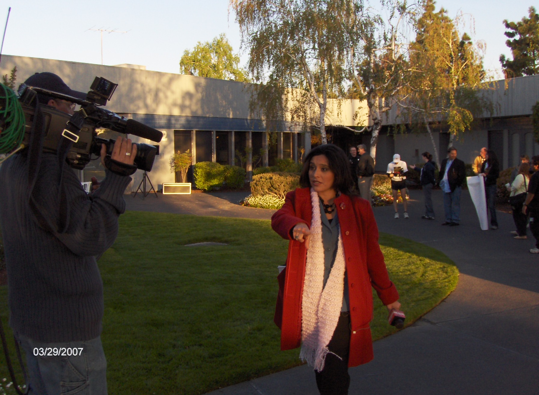 KMAX-TV setting up for a report at the KGBY radio station.